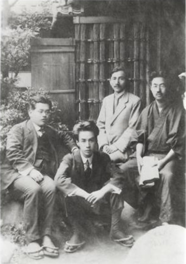 Group photo with from left: Kan Kikuchi, Ryūnosuke Akutagawa, Mutō Chōzō, Nagami Tokutarō.